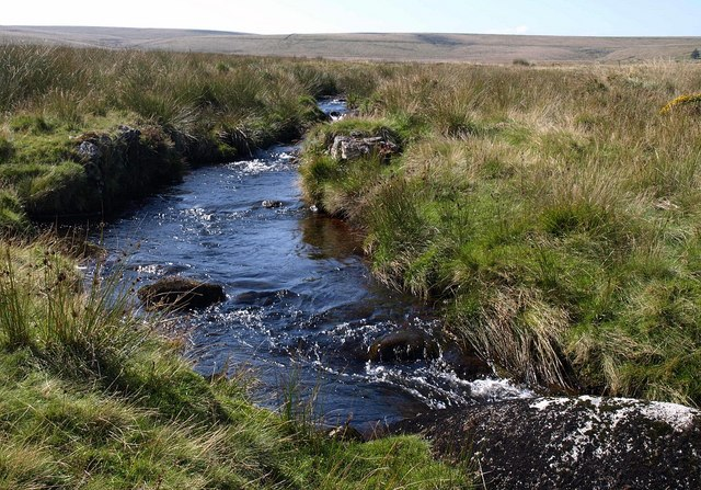 River Swincombe The moorland stream enters the square roughly at the point where it leaves the level Foxtor Mires and starts to drop through a rocky section.